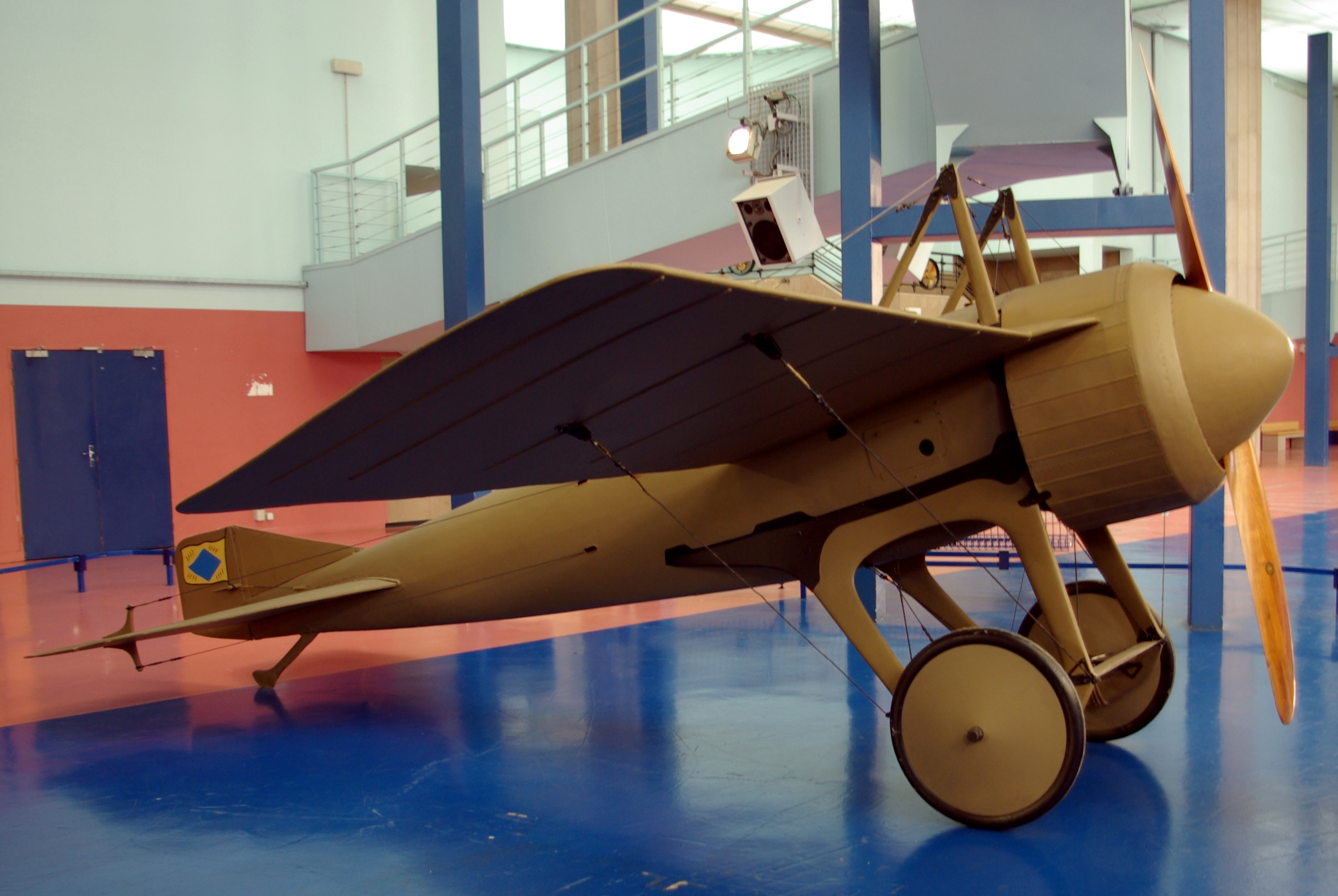 A Deperdussin Monocoque exhibited at the Air & Space Museum at Le Bourget, France.